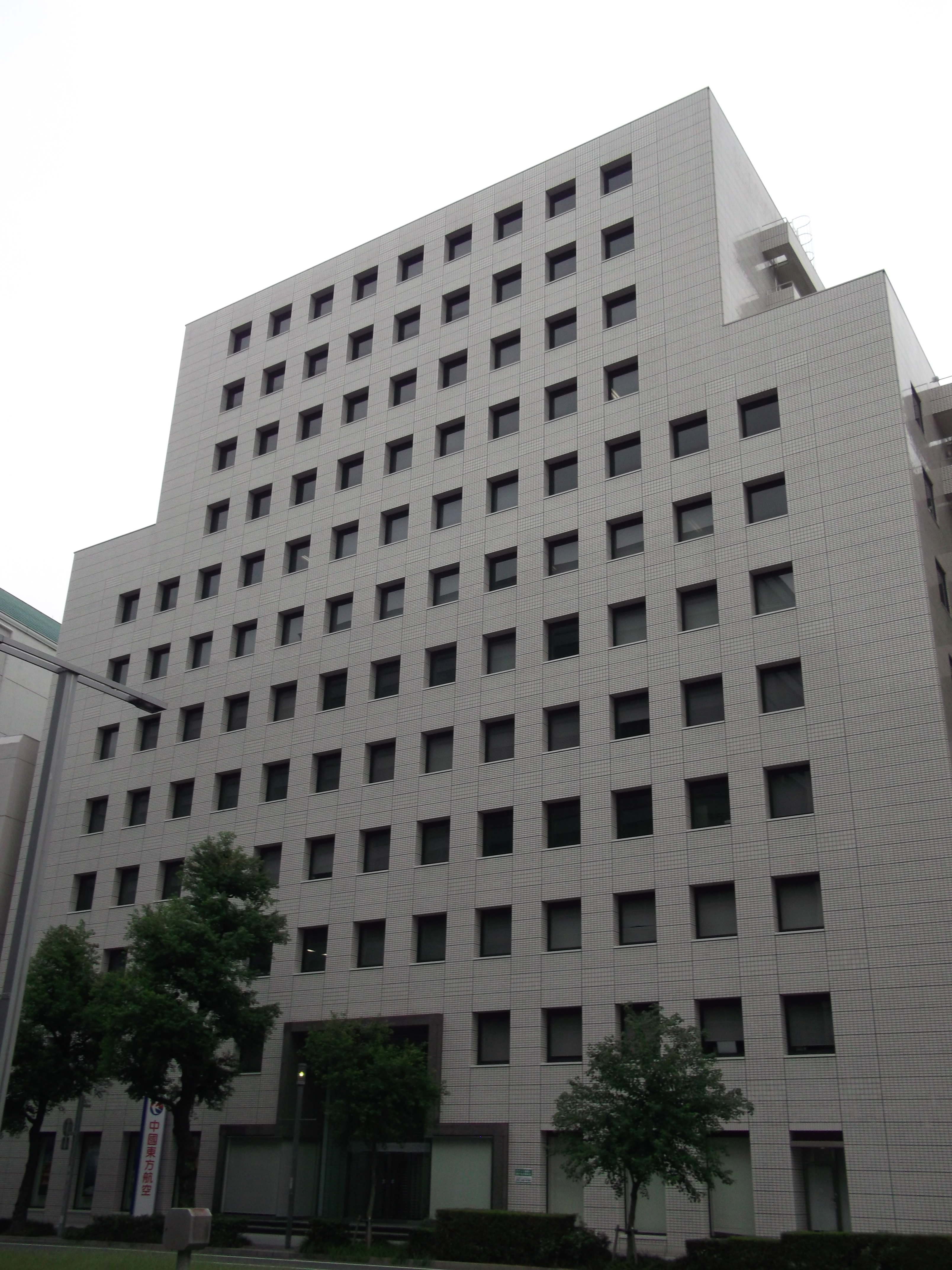 Nagoya Fushimi Square Building - Houses Nagoya offices of China Eastern Airlines